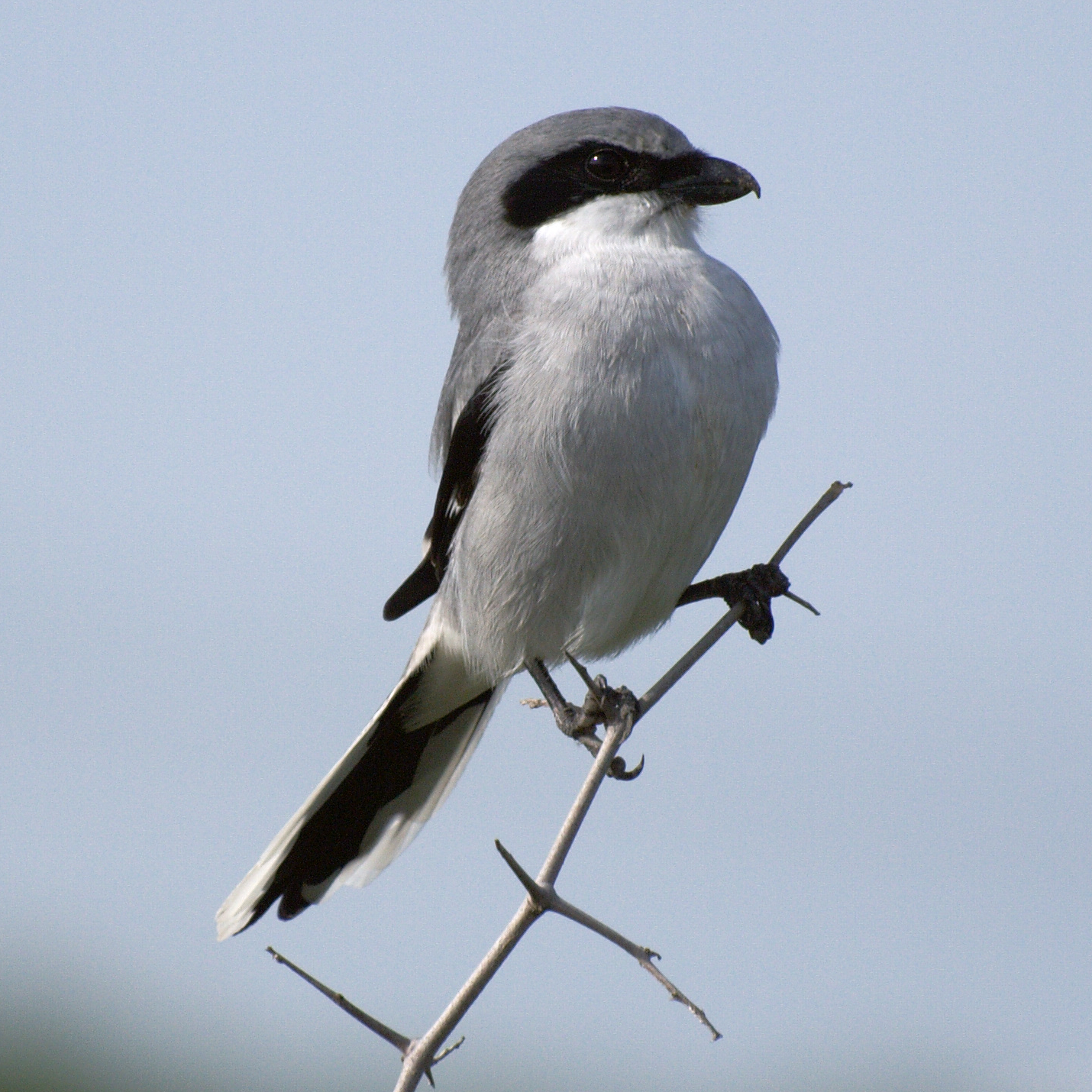 Loggerhead Shrike in Flour Bluff, Corpus Christi, Texas, USA.